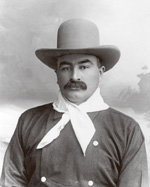 Photo courtesy of South Dakota State Historical Society